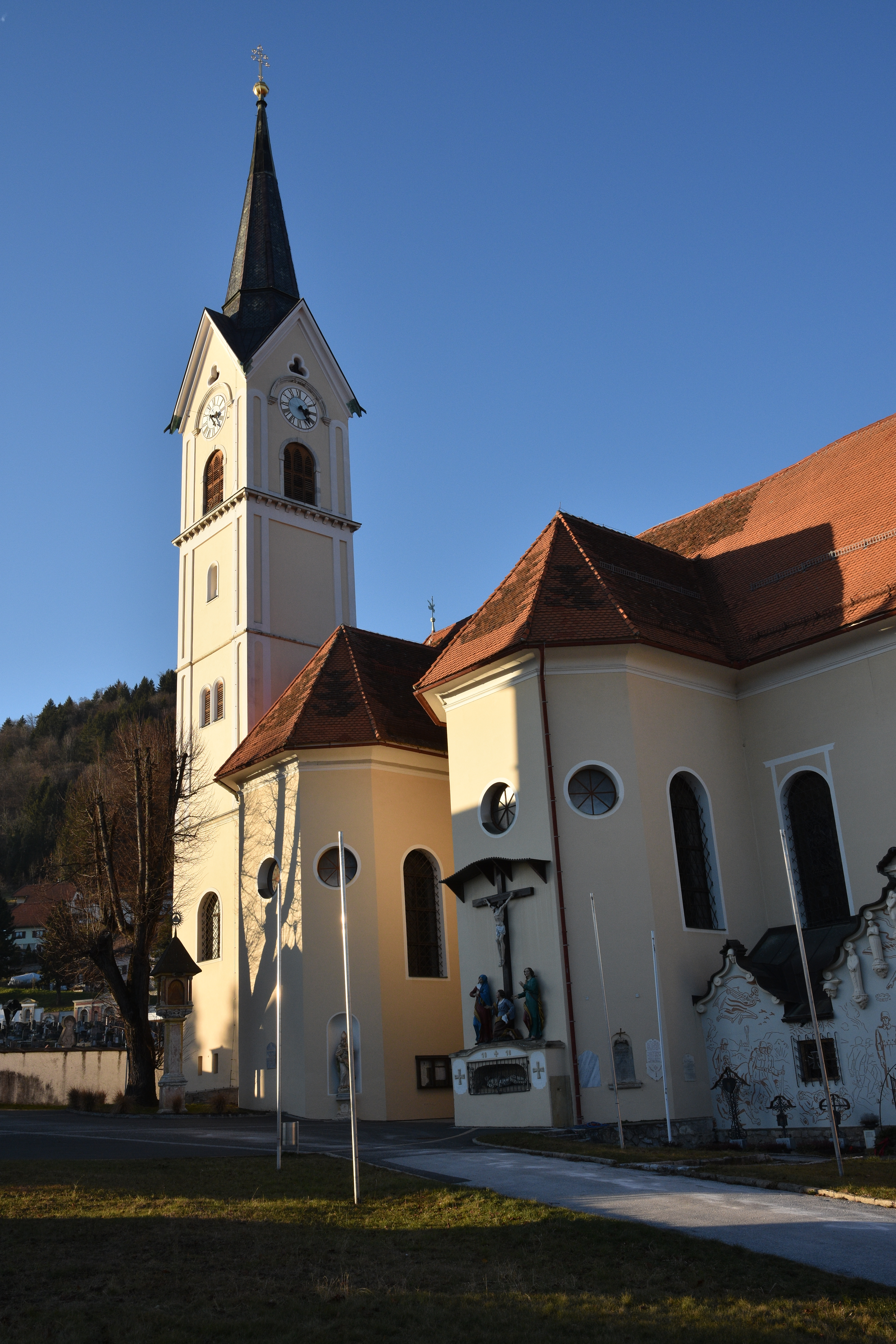 Church Wallfahrtskirche Mariä Himmelfahrt Maria Lankowitz